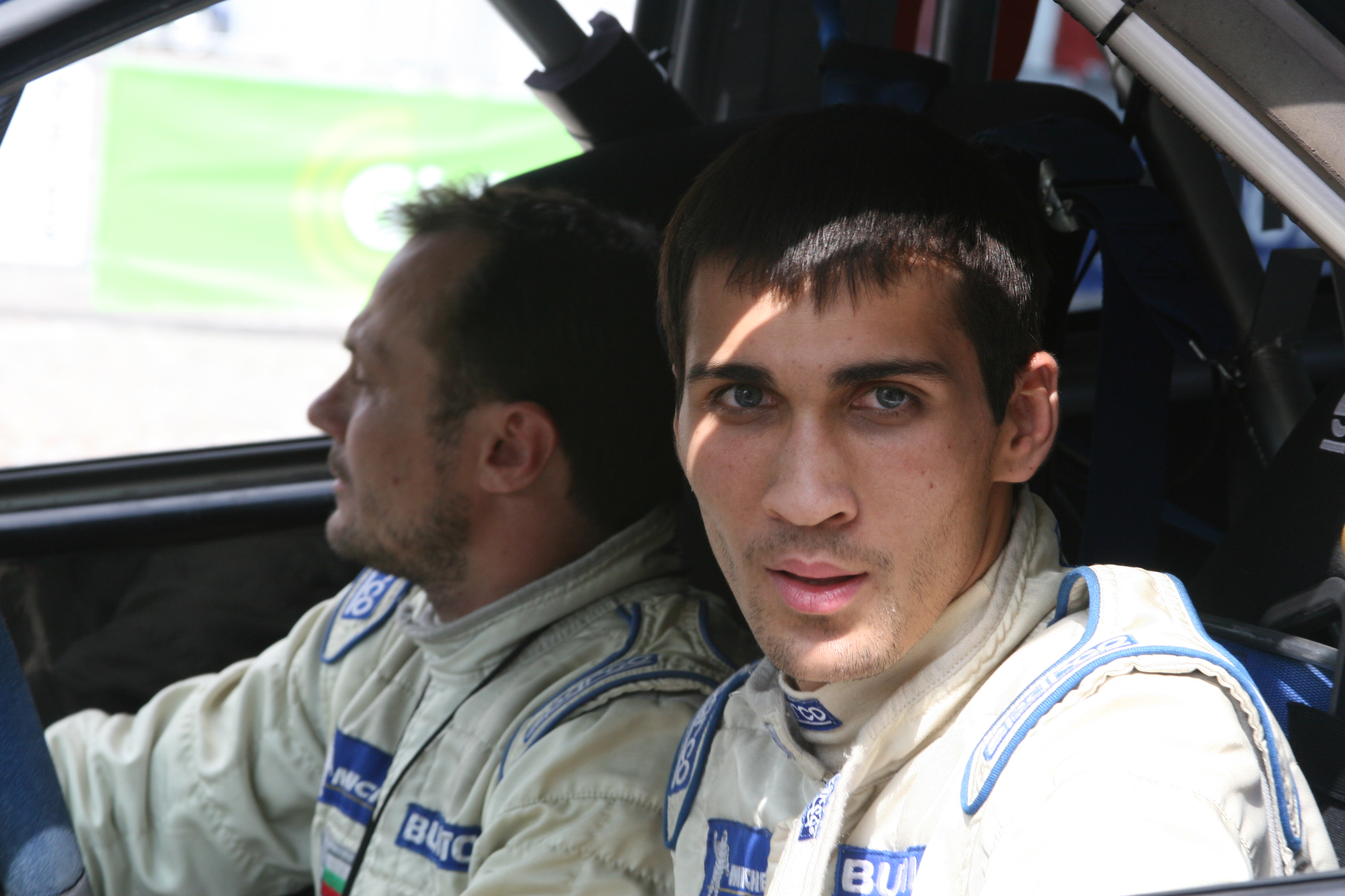 Bulgarian racecar driver Todor Slavov and co-driver D. Filipov, Renault Clio R3, team BULBET, Rallye Bulgaria 2009